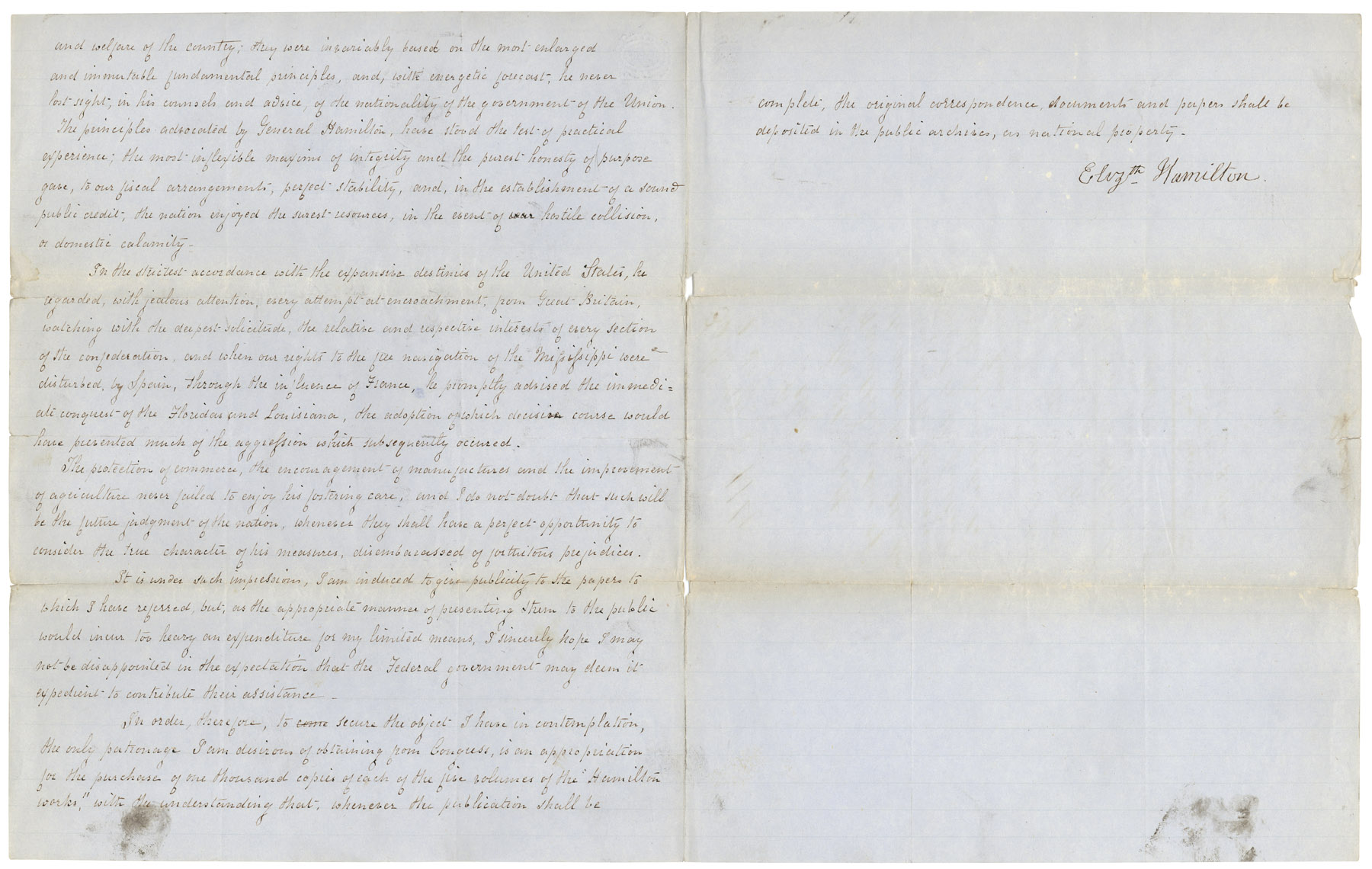 Elizabeth Hamilton petitions Congress to publish her husband Alexander Hamilton's writings (1846)